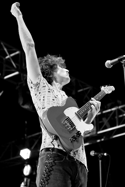 Southbound Festival 2011